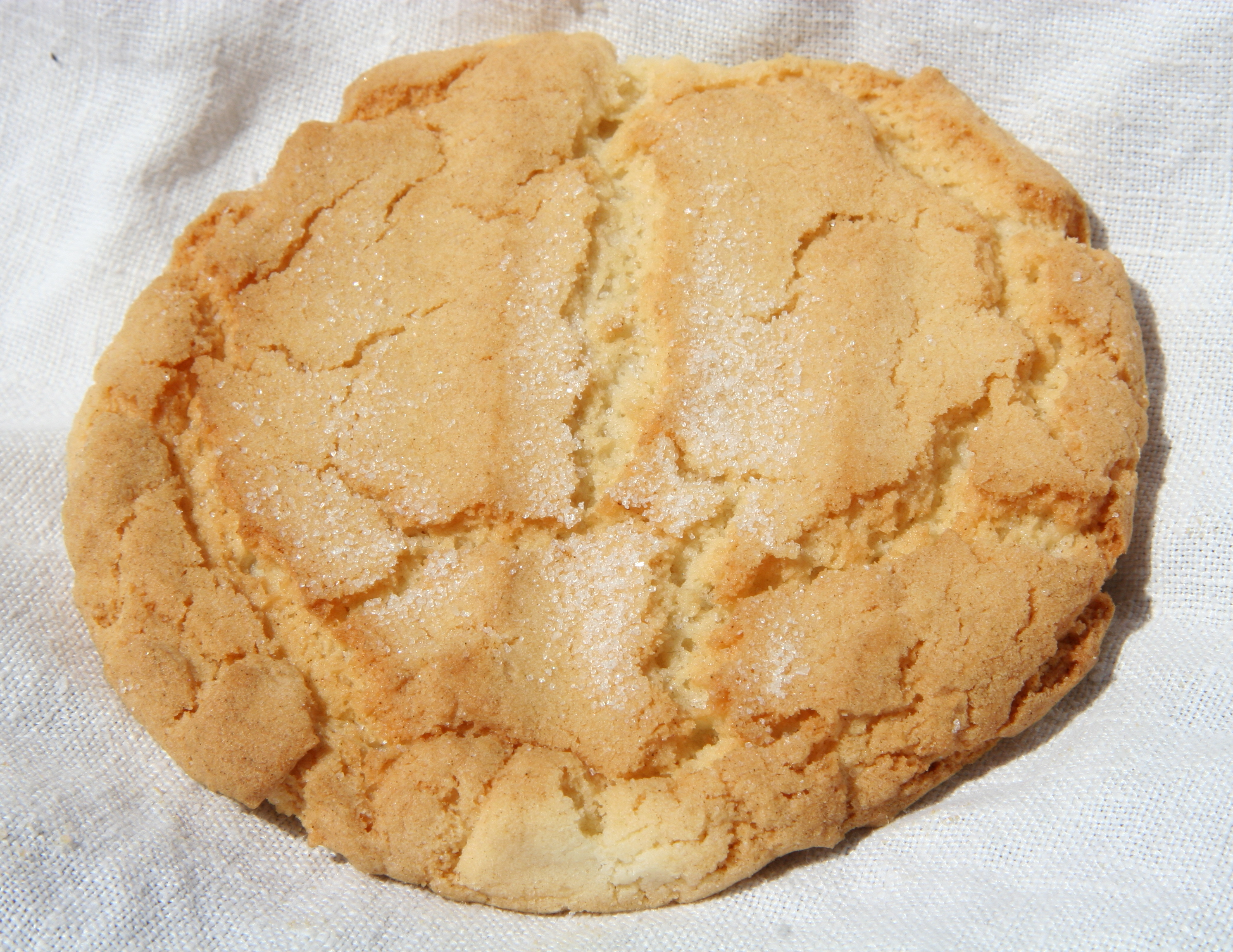 Plain sugar cookie on a white linen cloth